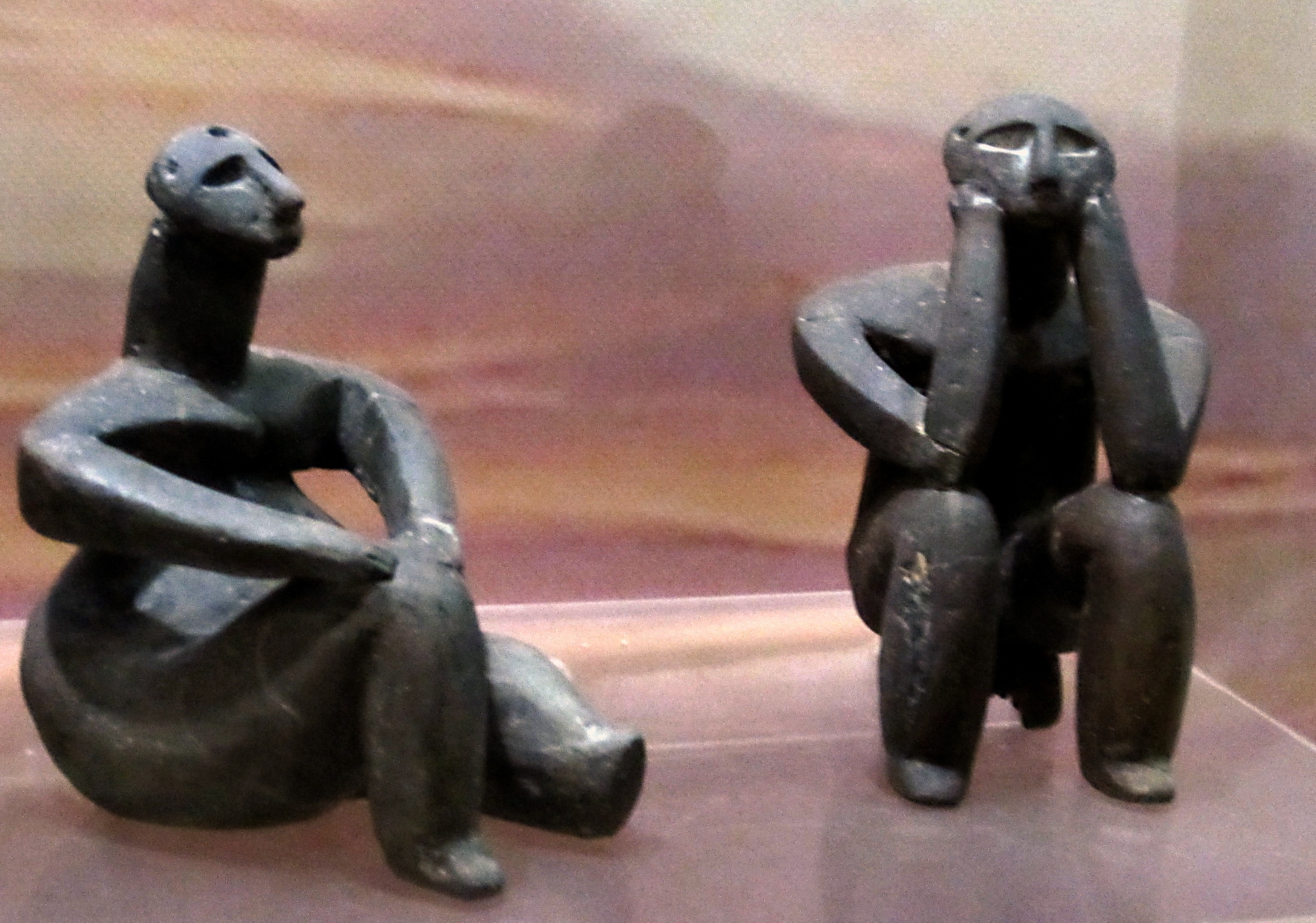 The "thinkers" of Hamangia (Chalcolithic culture) 800x634 (111 KB)